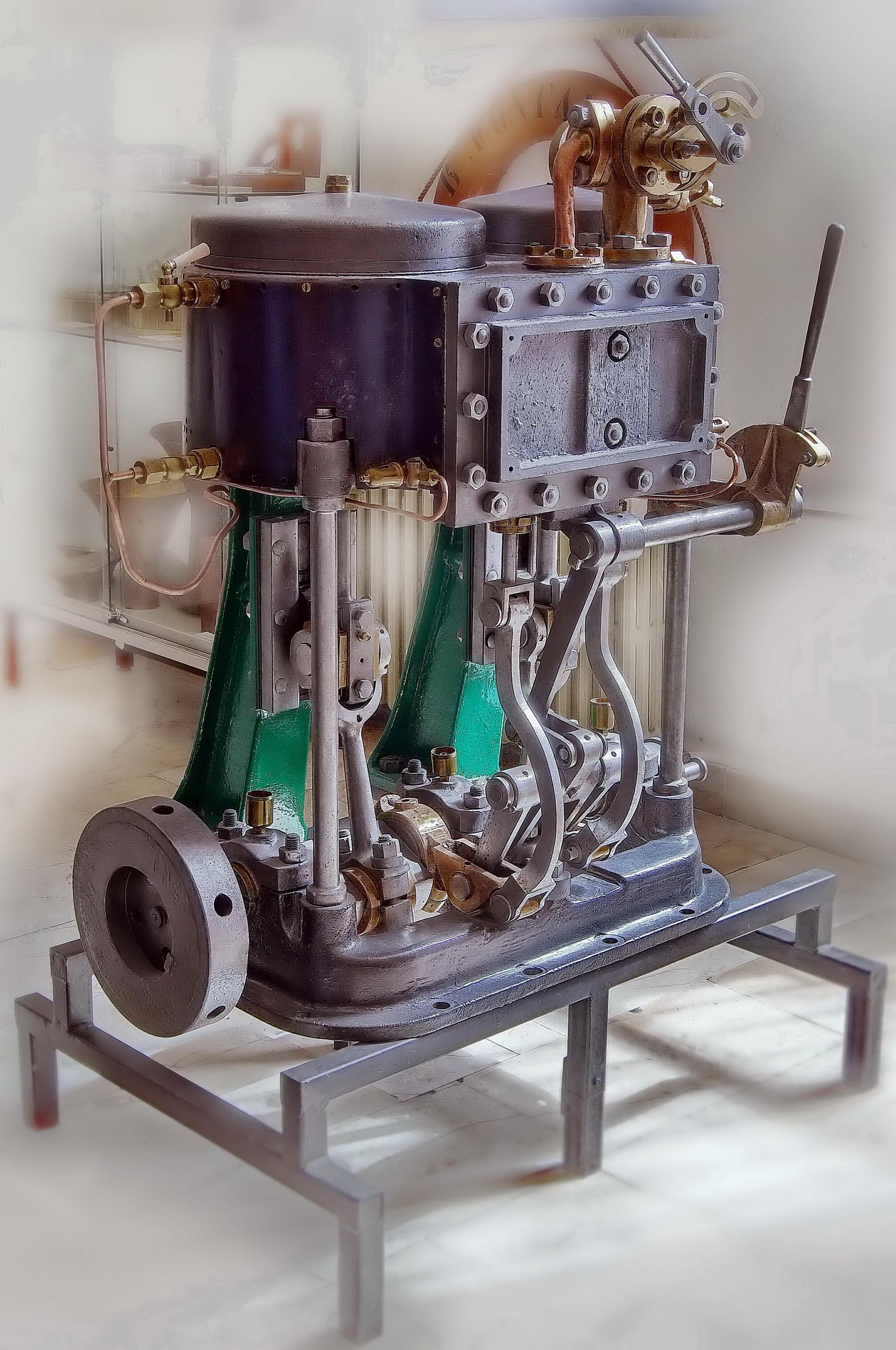 The reciprocating steam engine of the tugboat Vridni, made in 1894 by Howaldtswerke, Kiel, Germany. Approximate height: 1 m.Exhibited at the Croatian Maritime Museum, Split.ACKNOWLEDGMENTPhotographed with the kind permission of the Croatian Maritime Museum, Split